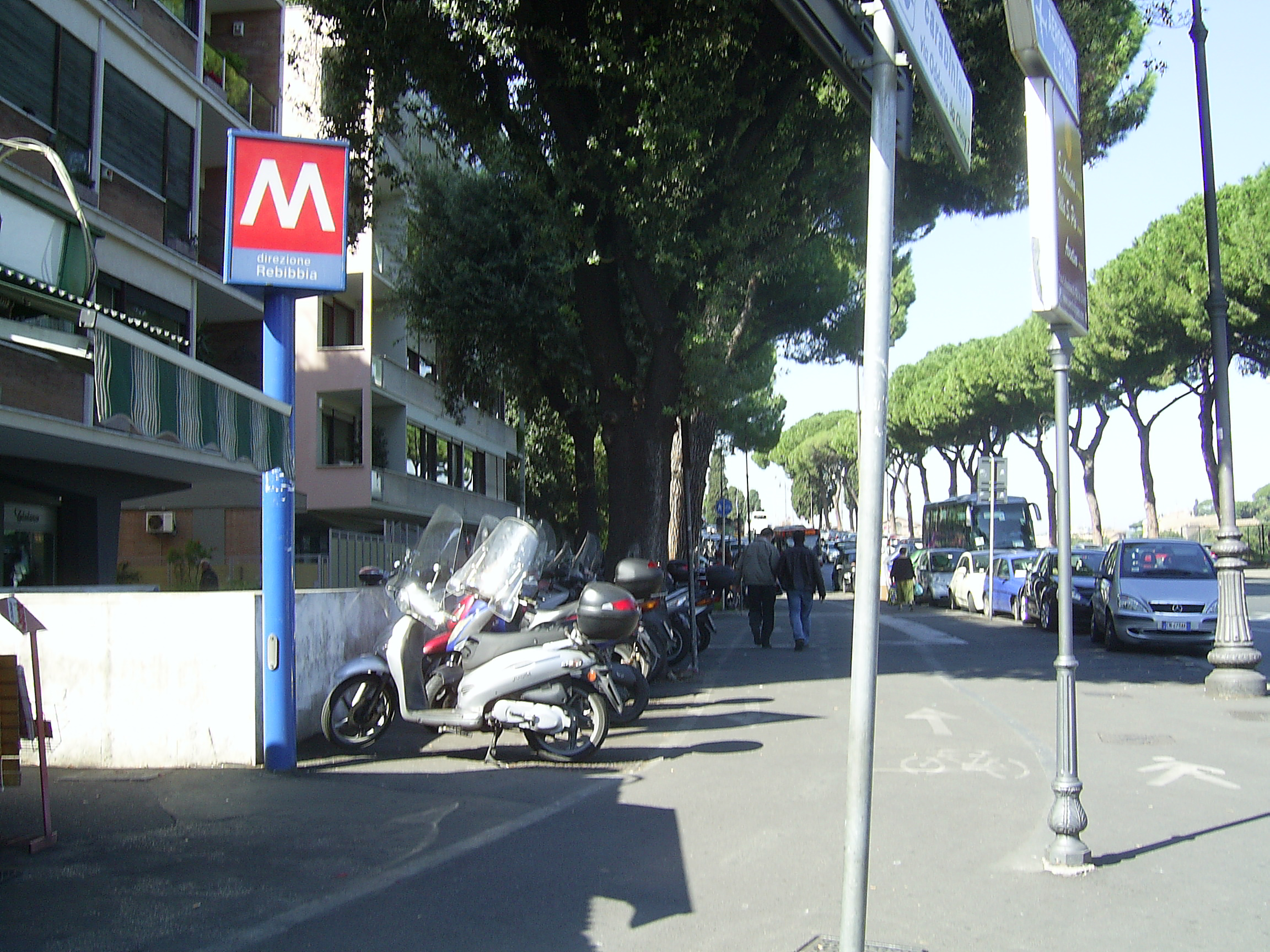 Circo Massimo stop entrance, direction Rebibbia